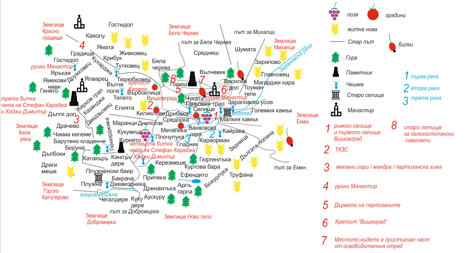 License by Malev Sourses:Town house Vishovgrad,Assoc.Prof.Sabin Sabev,Georgi Nedelchev Tsankov